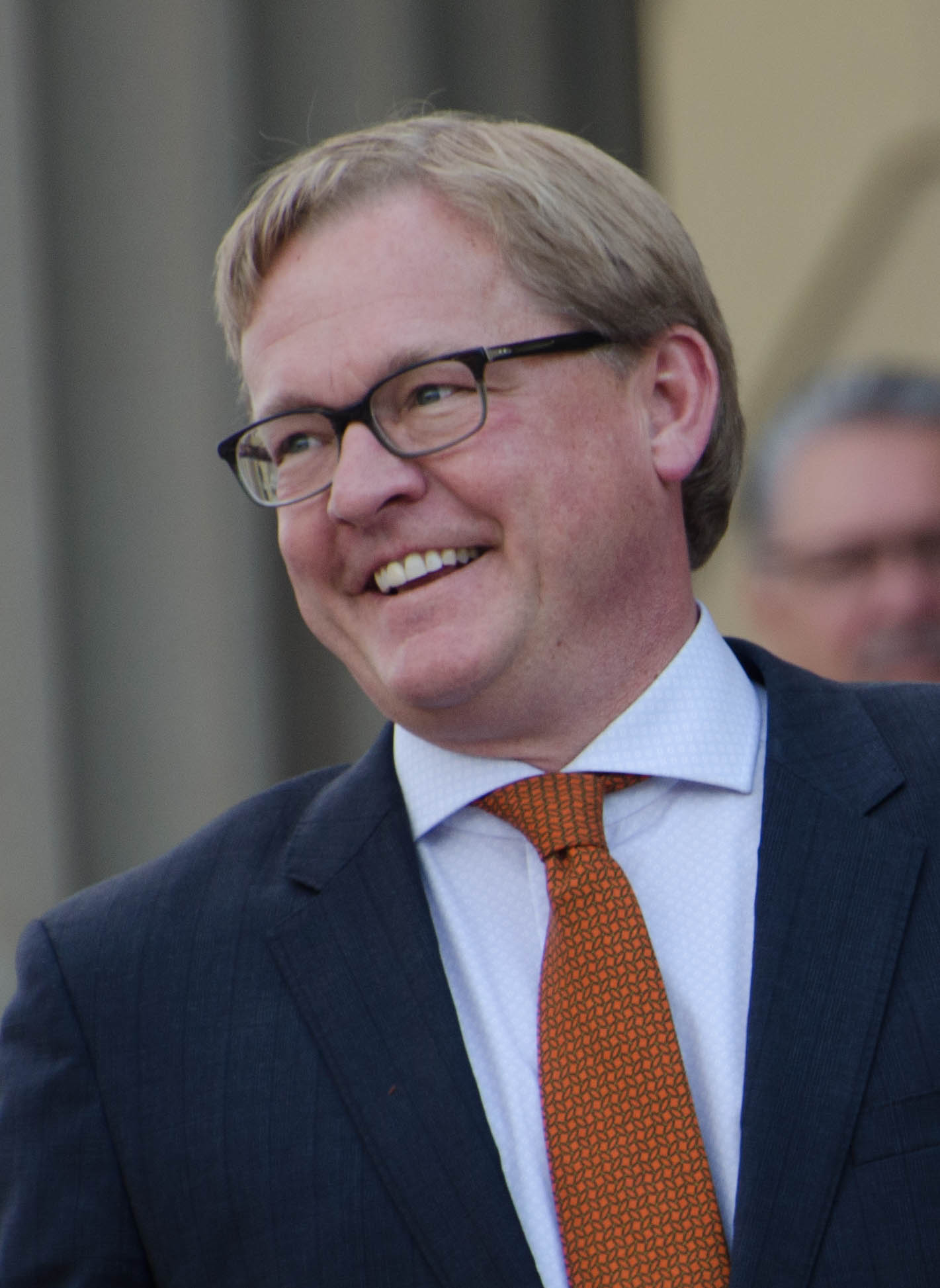 David Eggen at the 2015 Alberta Premier/Cabinet swearing-in ceremony, by Connor Mah.